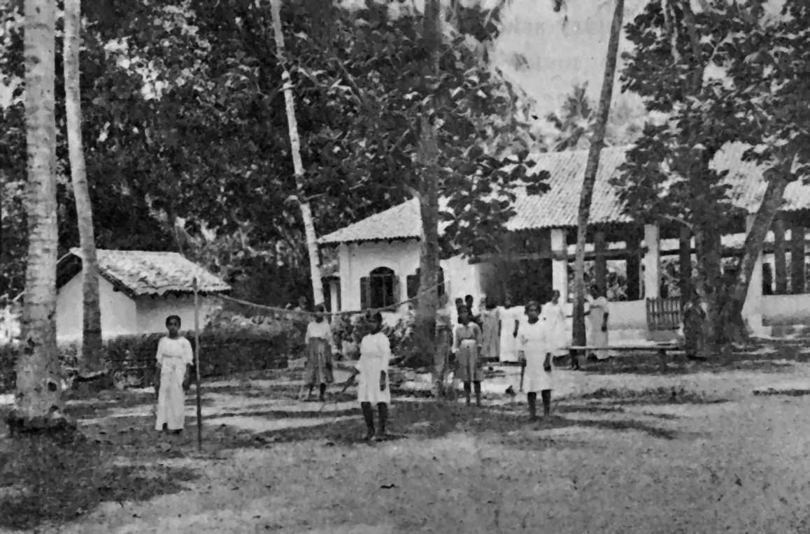 Playground and practisisng School in the precinct of the Musæus Buddhist Girl's College, Colombo.